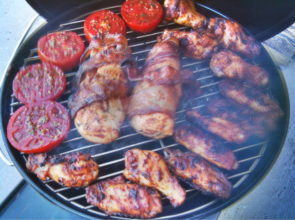 Posted from Twitter